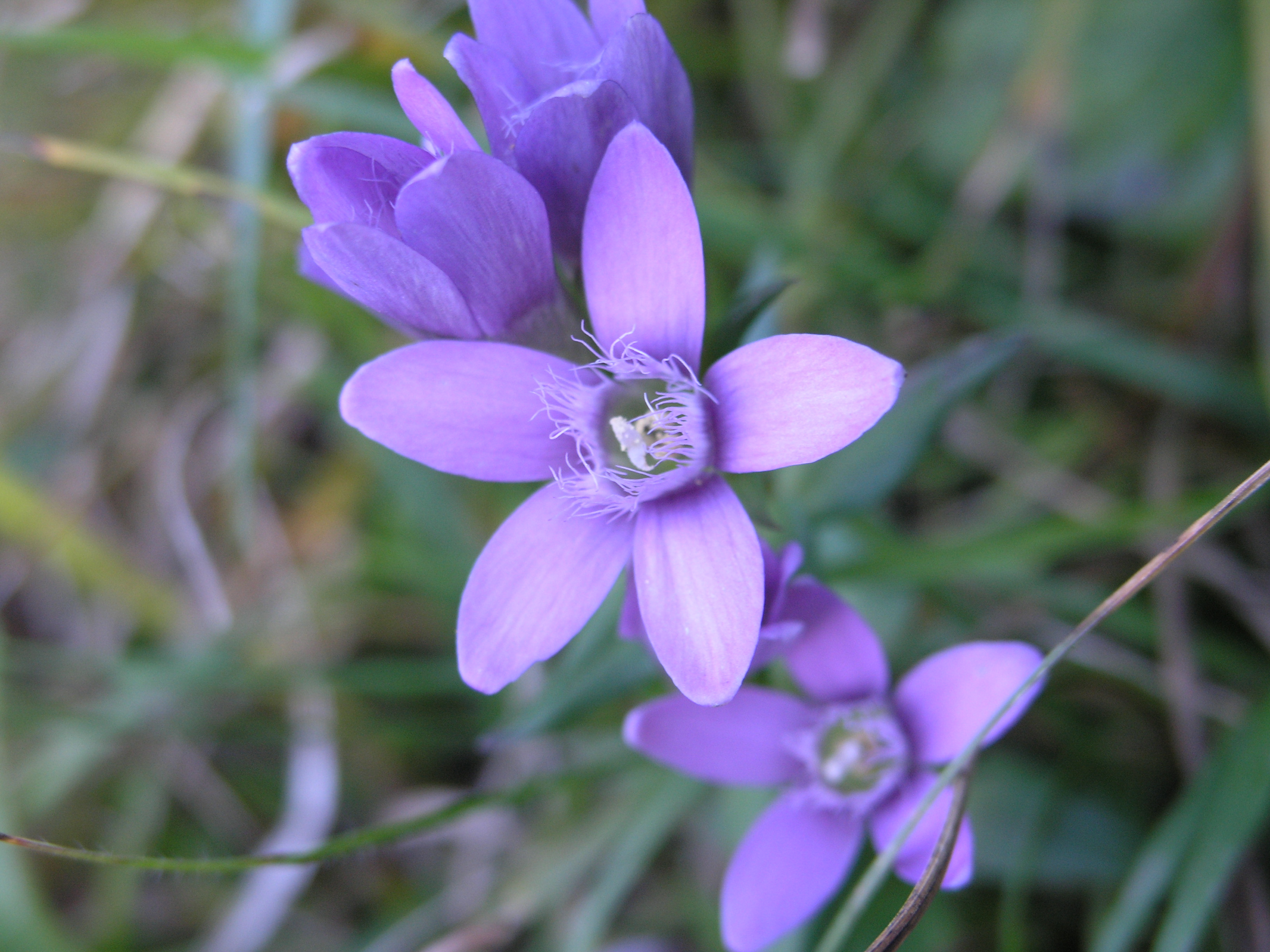 Gentiana germanica